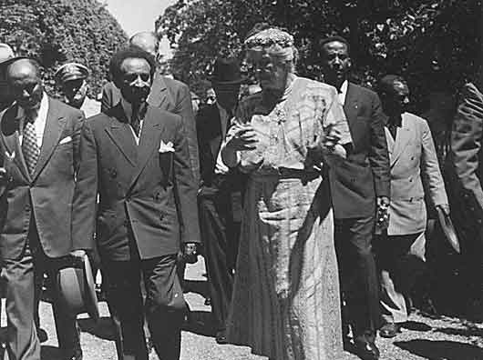 Eleanor Roosevelt and Haile Selassie at Hyde Park, New York